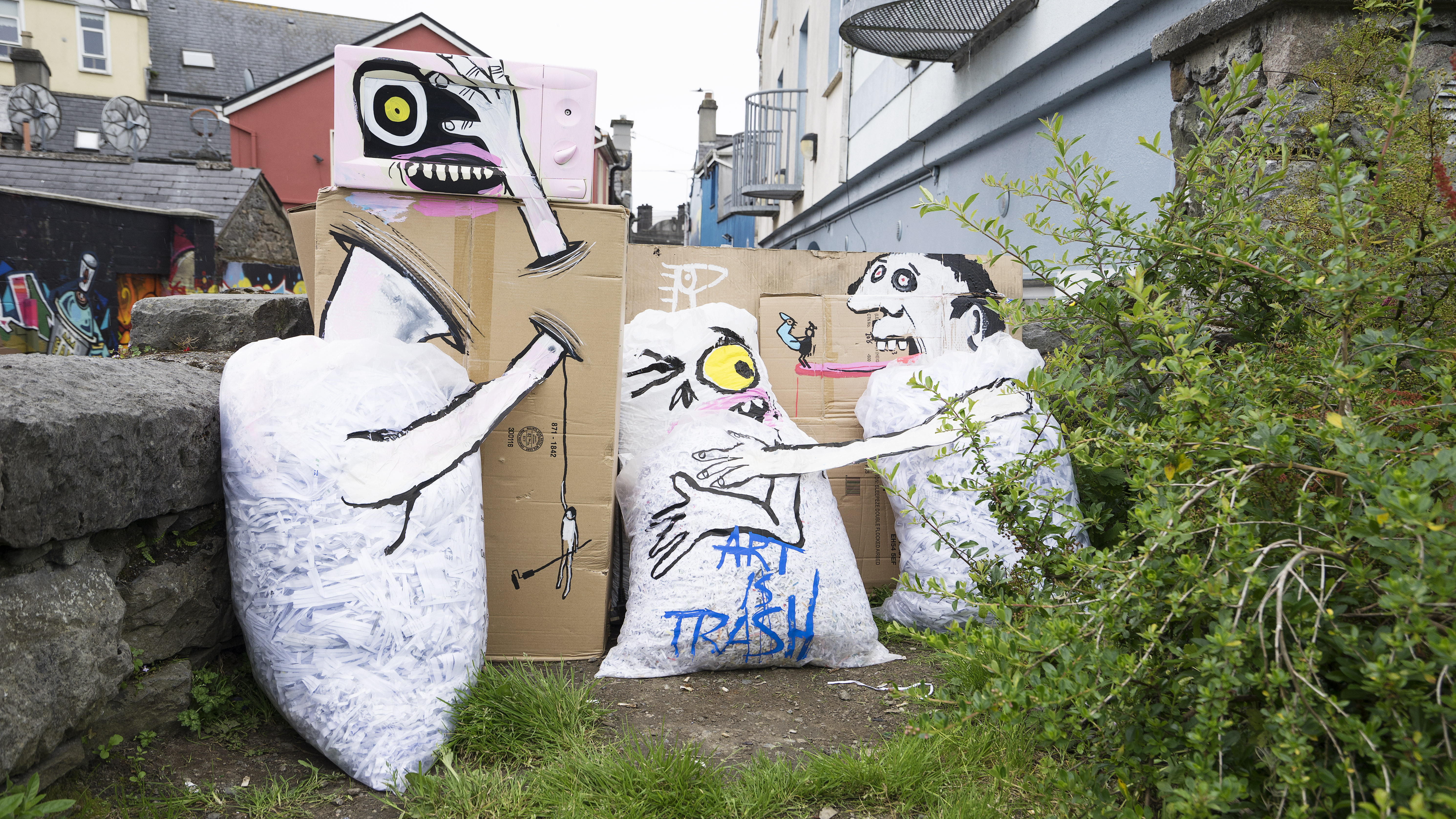 Art is Trash